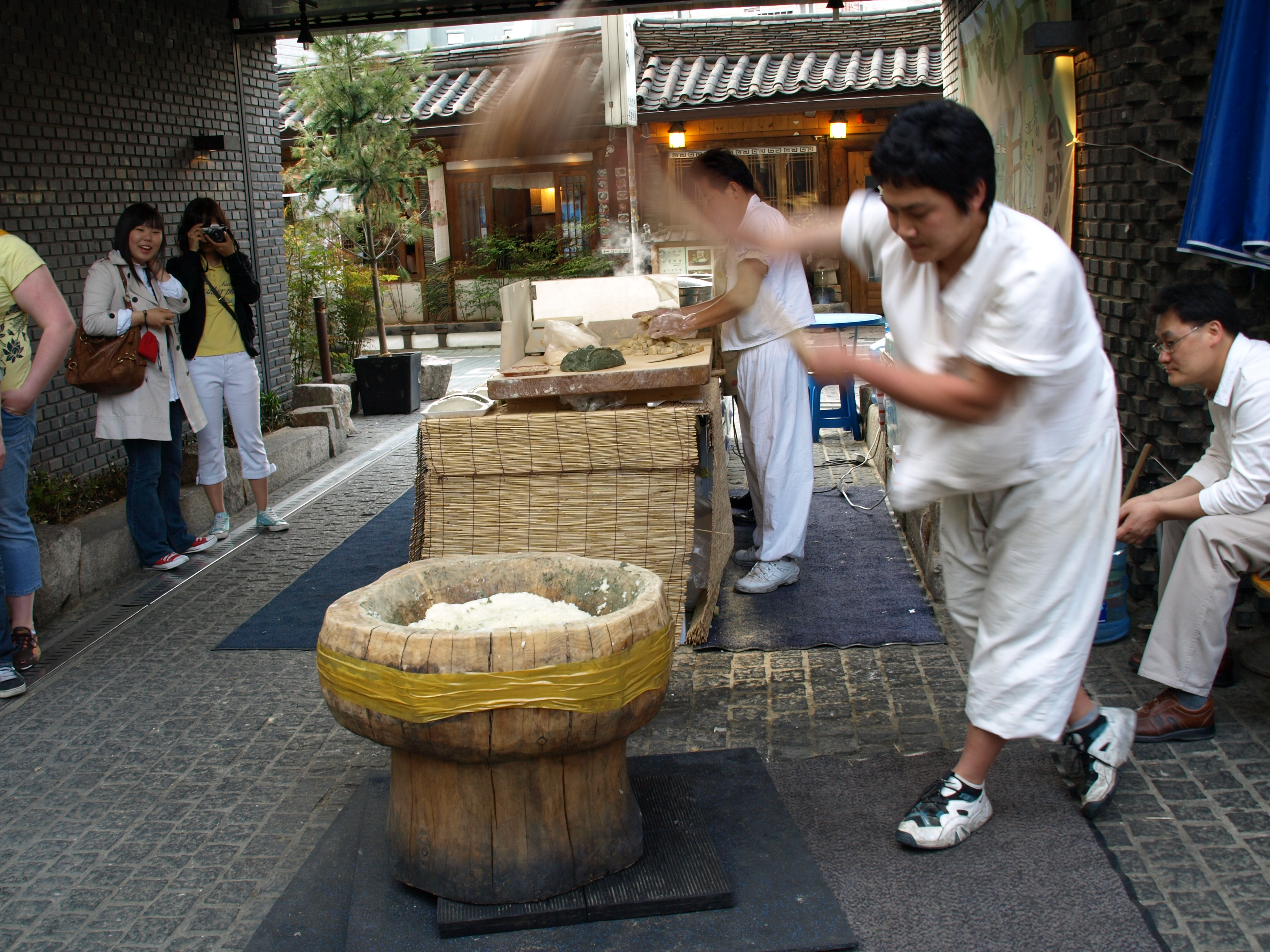 A young man in hanbok pounding tteok (떡 Korean rice cake) at Insadong in Jongno-gu district, Seoul, South Korea.